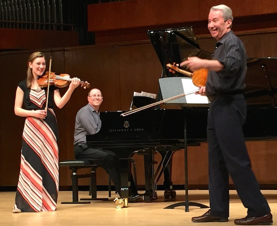 Daniel Heifetz, Founder & Artistic Director of the Heifetz International Music Institute, presenting a master class at the DeLay Symposium at the Juilliard School in New York in 2015